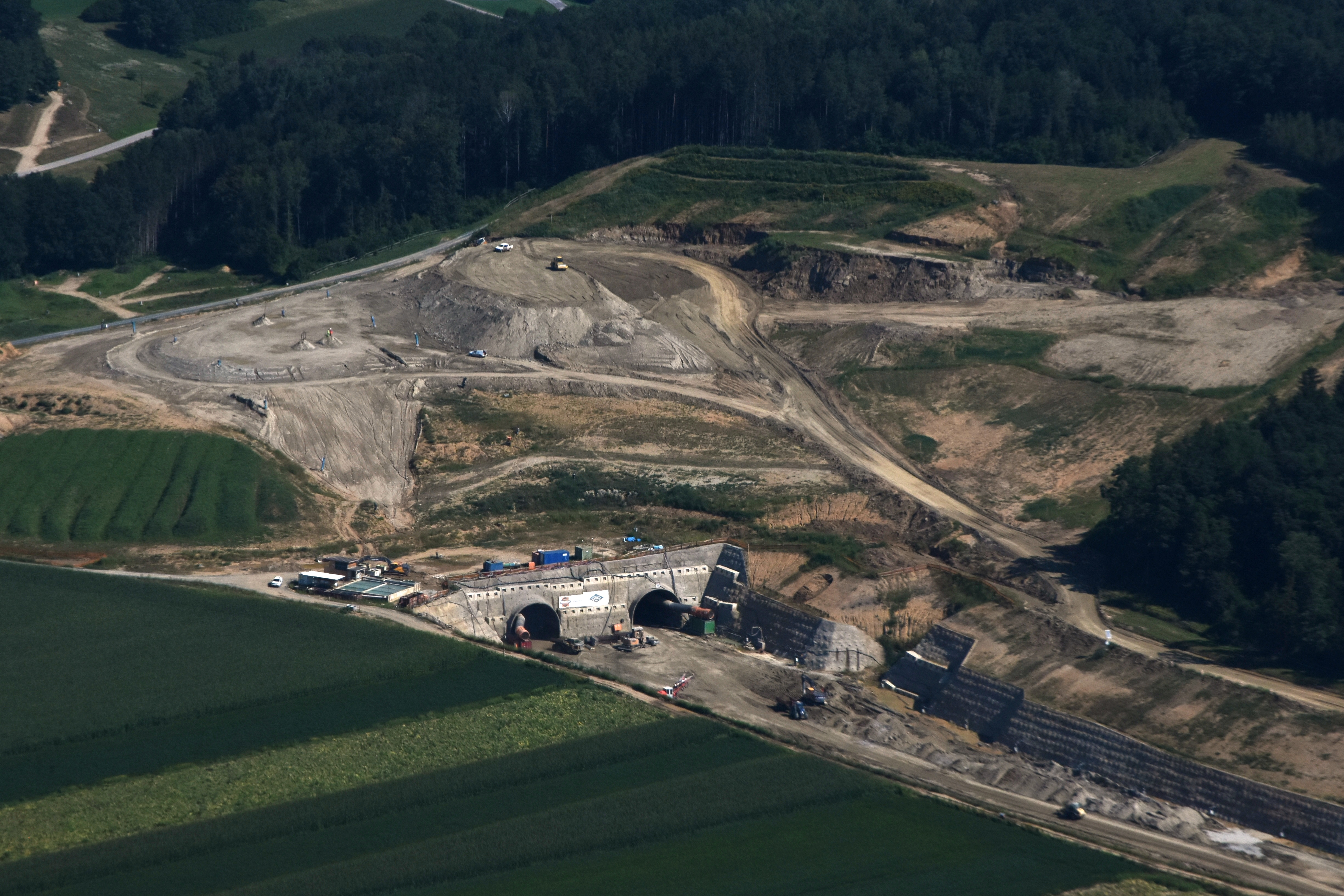 Ostportal Tunnel Rudersdorf S7 Fürstenfelder Schnellstraße